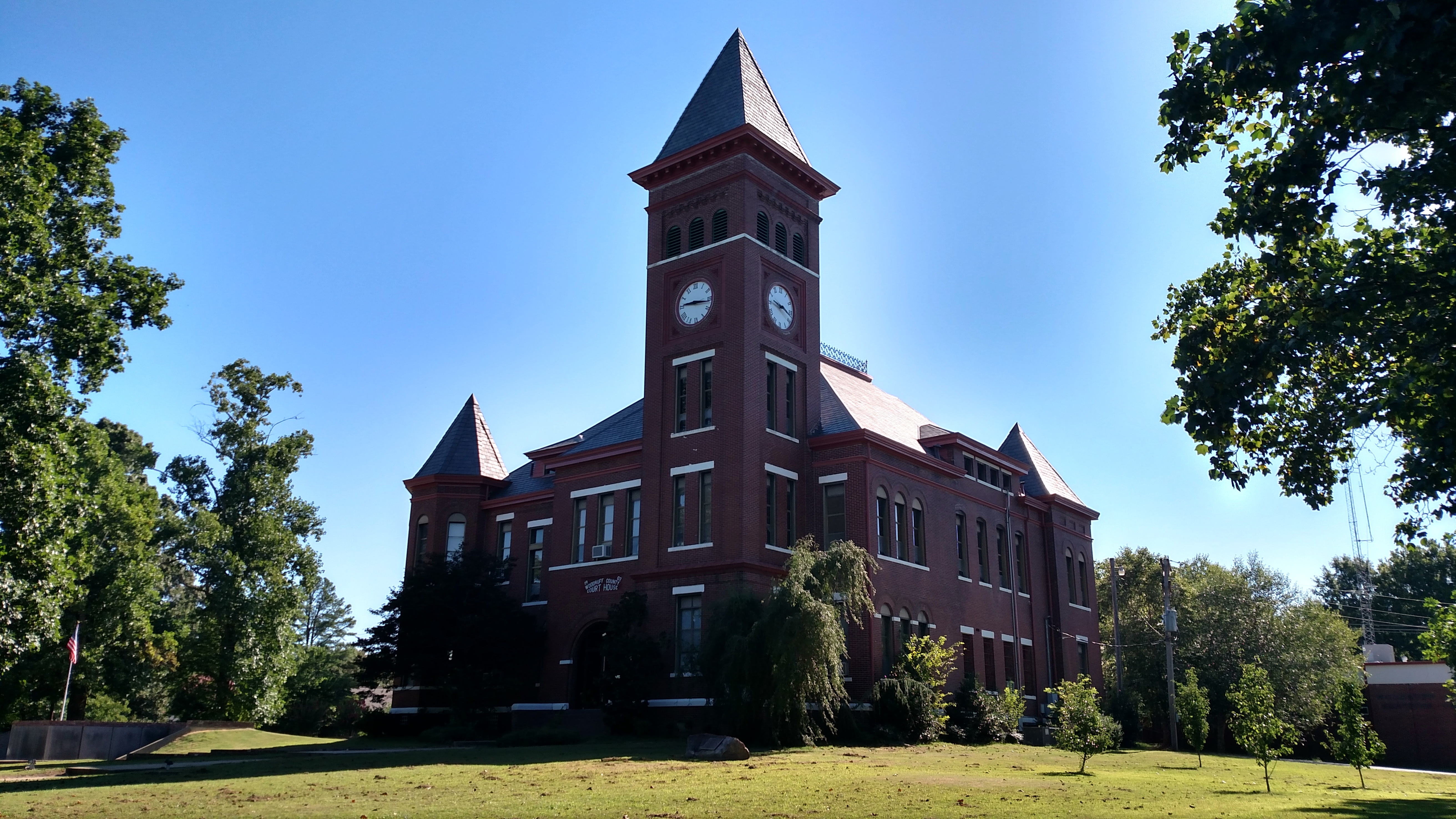 courthouse exterior